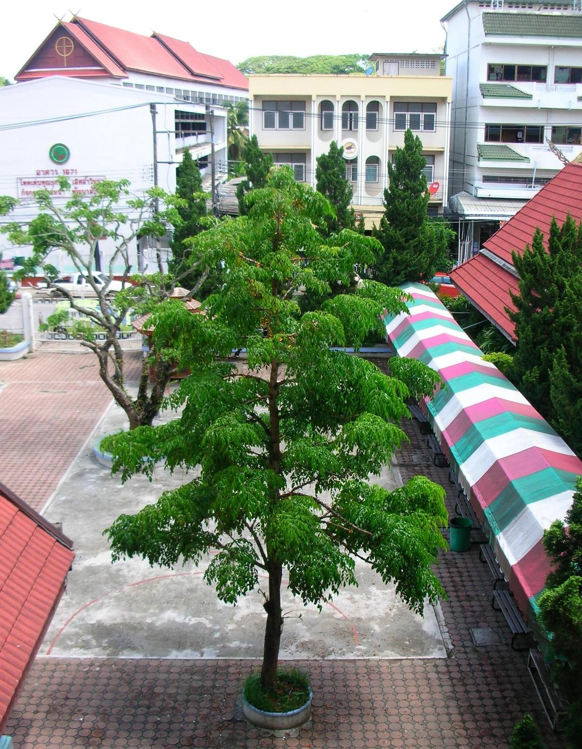 Tree Jasmine (Radermachera ignea) at Chiang Rai Wittayakhom School.